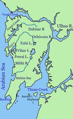 Geography of Bombay